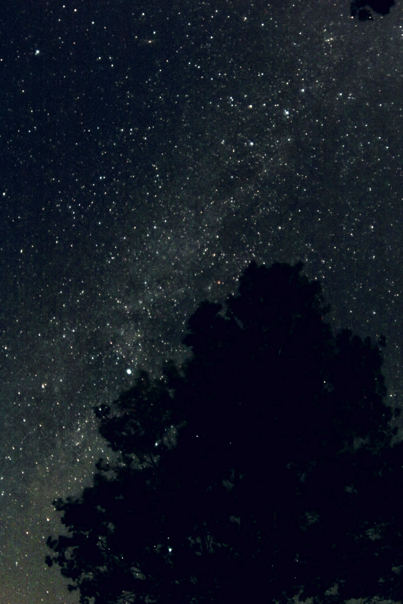 Foto of the Milky Way